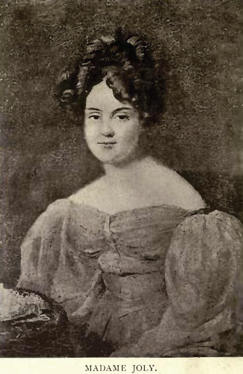 Julie Christine Chartier de Lotbinière (1810-1887). Reproduced from an oil painting. Daughter of Michel-Eustache-Gaspard-Alain Chartier de Lotbinière (1748-1822) and of Mary Charlotte Munro (1776-1834). Wife of Pierre-Gustave Joly (1798-1865). Mother of Henri-Gustave Joly de Lotbinière (1829-1908).